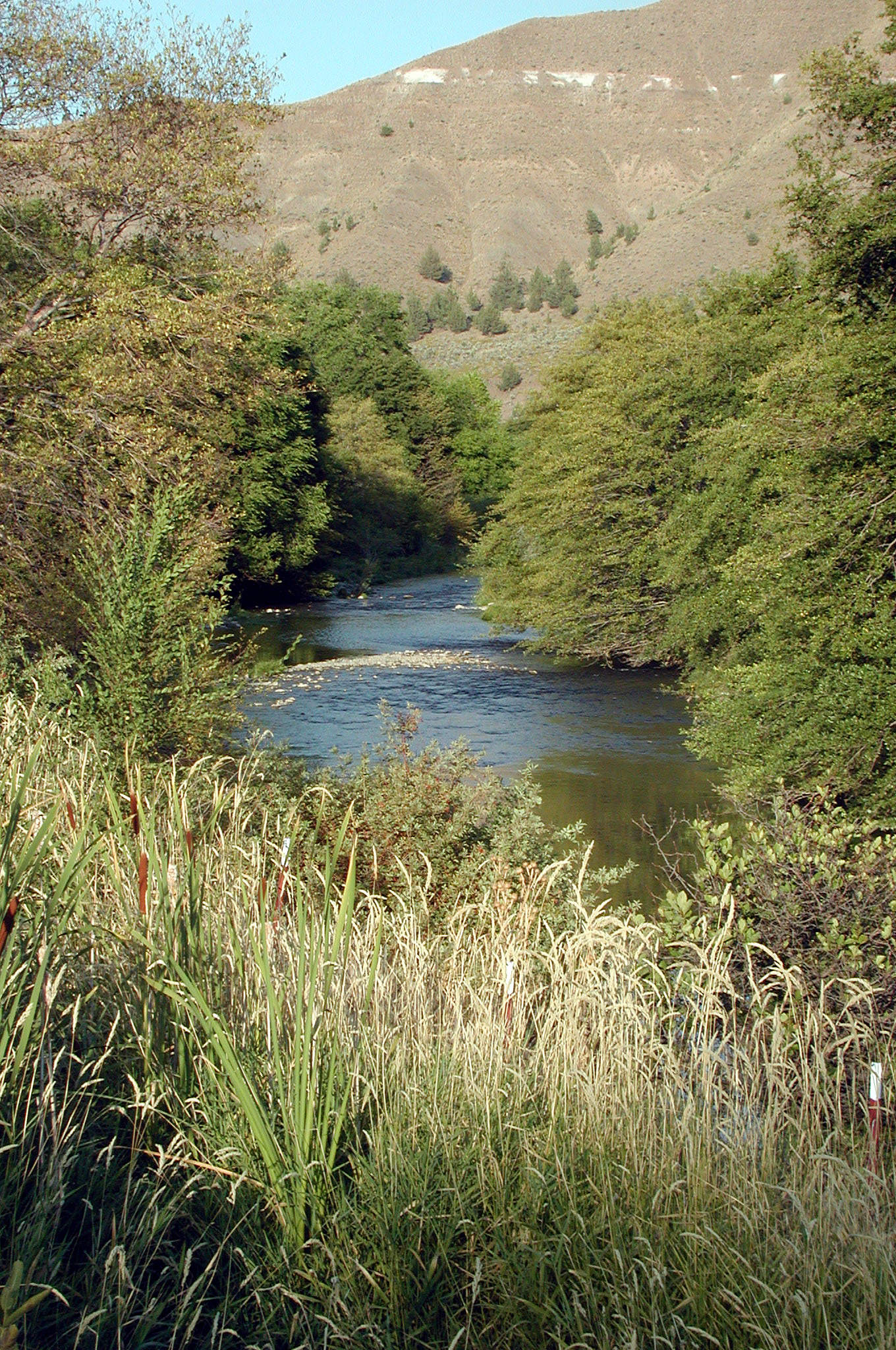 South Fork John Day River just south of Dayville, Oregon. Looking downstream (north). Taken from a county road that parallels the river.